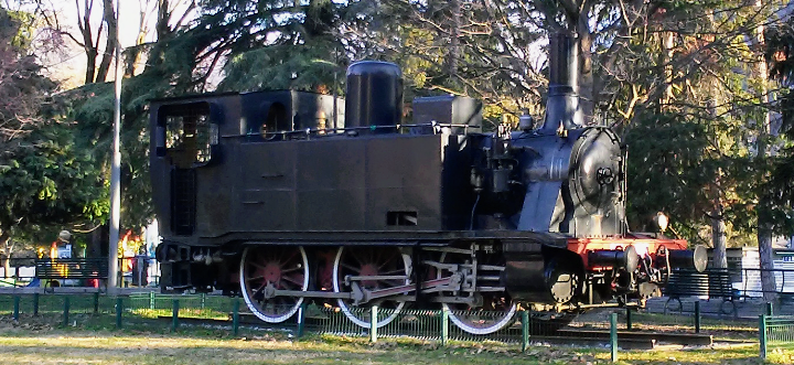 Old Locomotive of line Como San Giovanni - Como Lago. Located in the park near to Como stadium